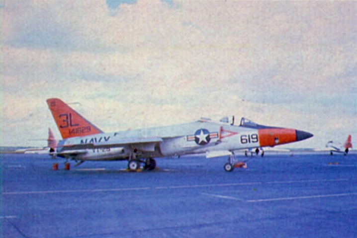 A U.S. Navy Grumman F-11A Tiger fighter (BuNo 141829) of Training Squadron VT-23 Professionals at Naval Air Station Kingsville, Texas (USA).